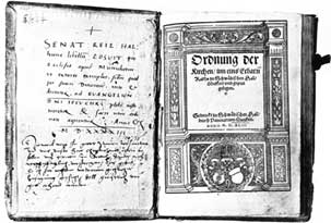 Church order of the city of Schwaebisch Hall (16th century)